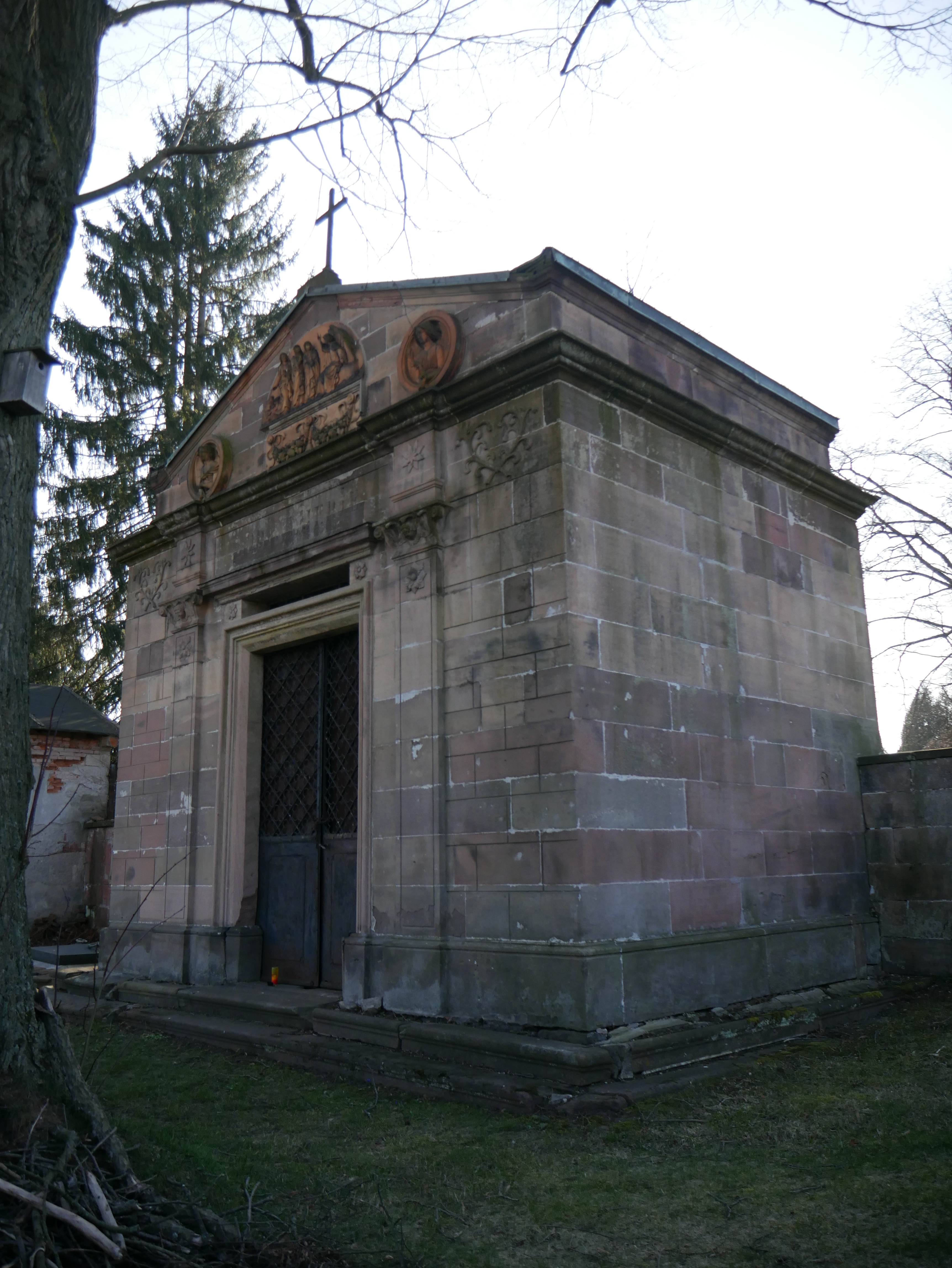 Hrobka Františka Xavera Jerieho - jilemnického starosty, továrníka a mecenáše. Byla postavena okolo roku 1913 na návrh architekta Jana Vejrycha.